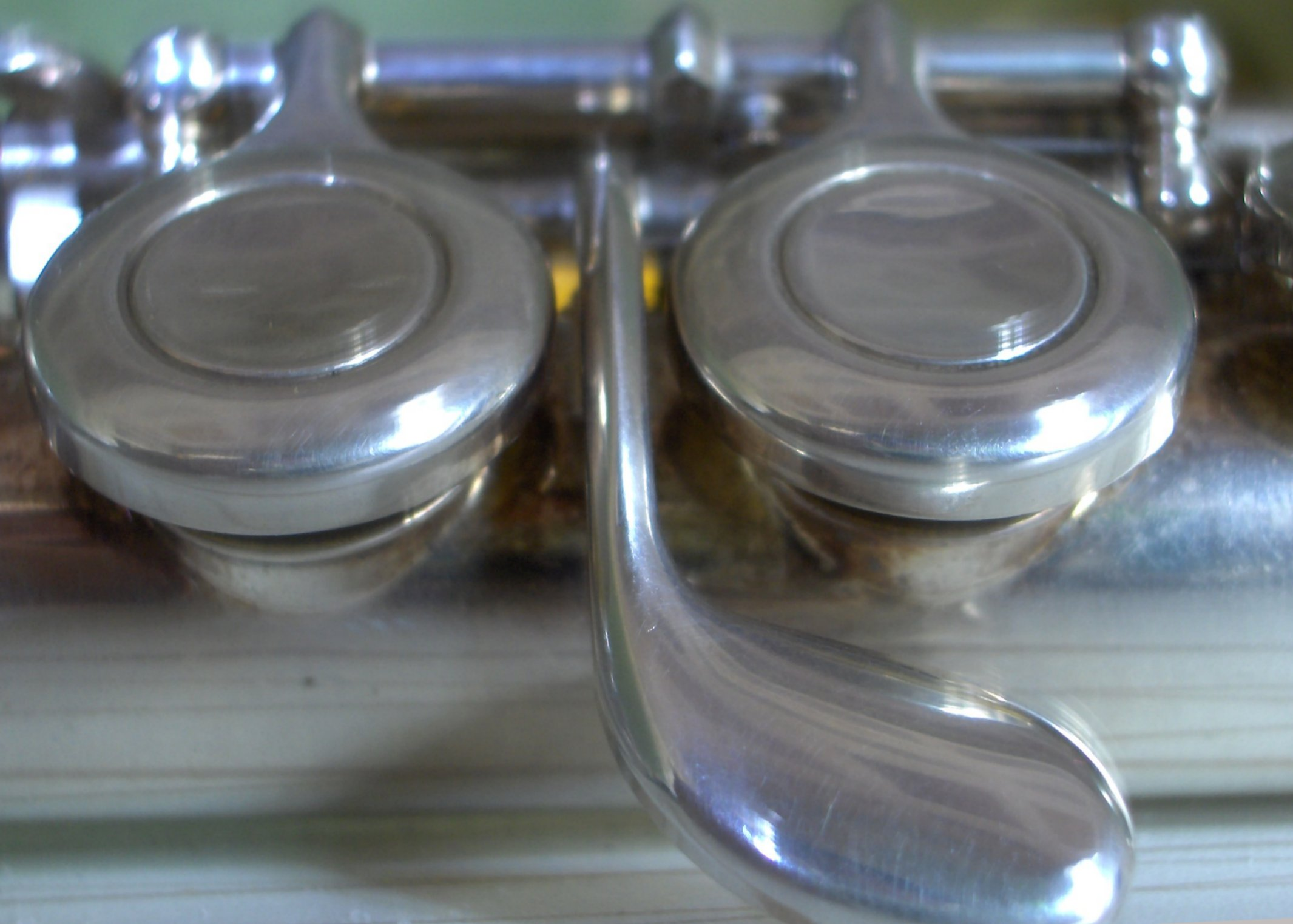 Flute keys (Yamaha concert flute)